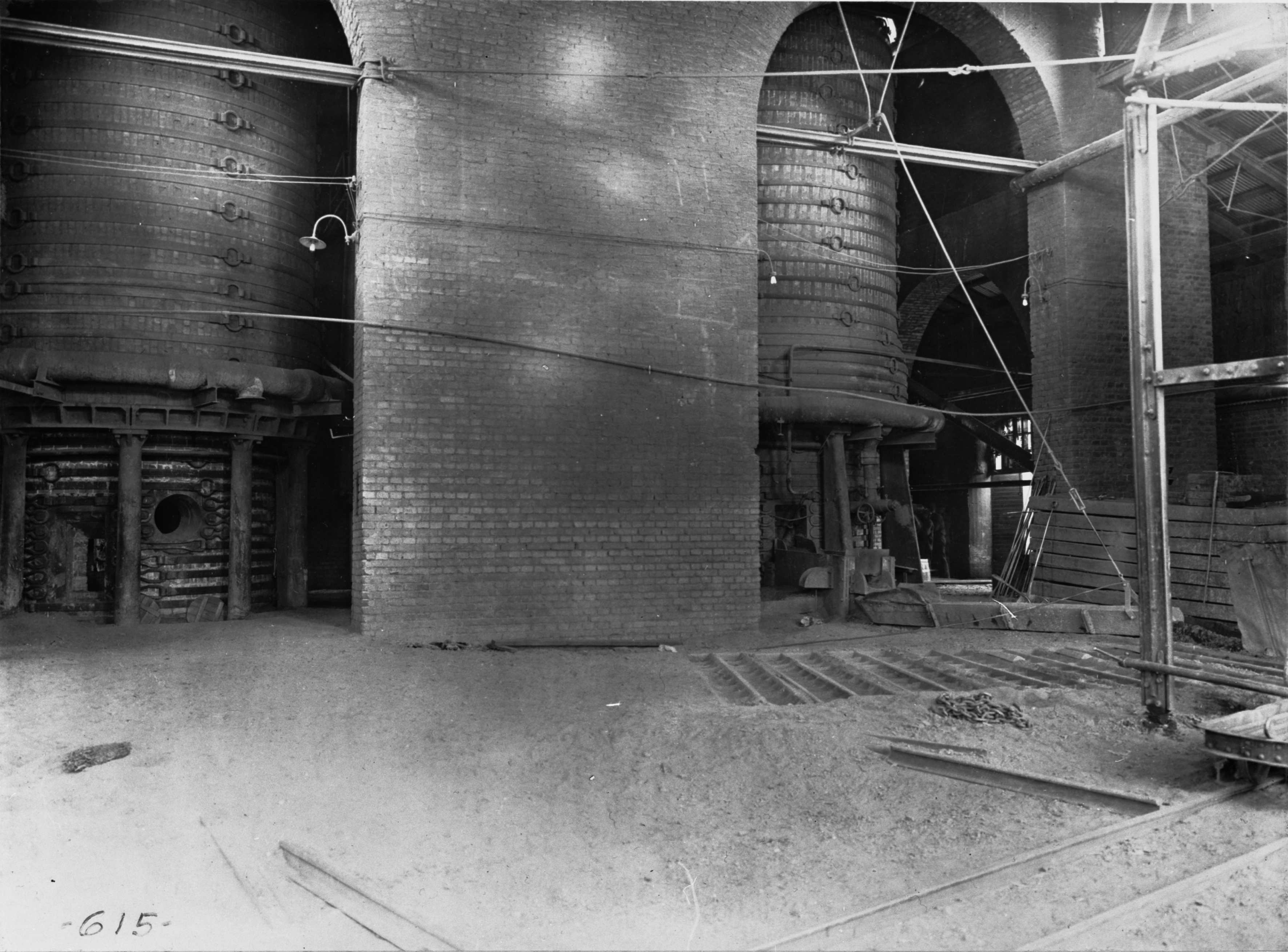 Blast furnaces in Spännarhyttan, after 1910, Norberg, Sweden.